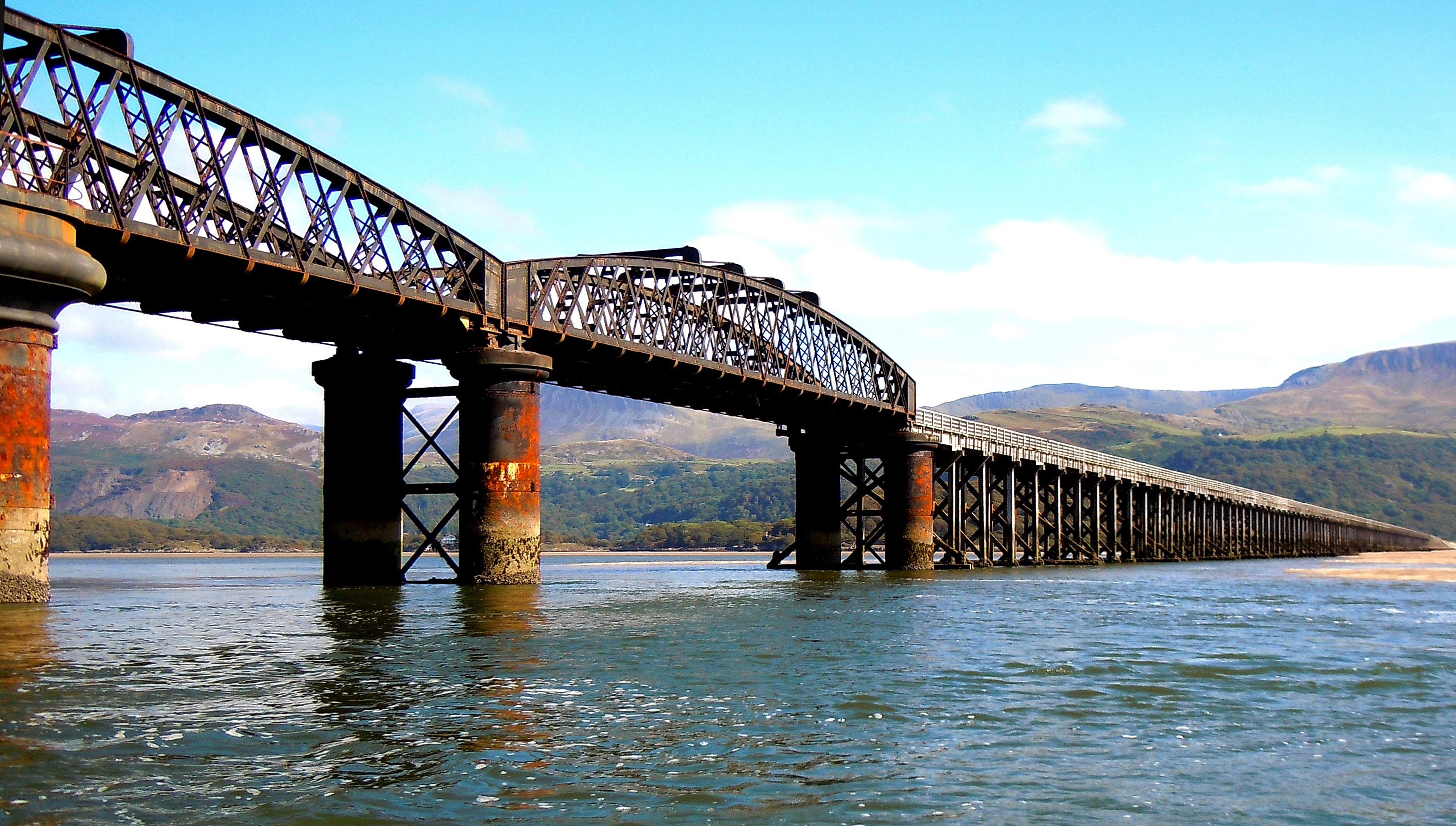 The Barmouth Bridge (Welsh: Pont Abermaw) is a single-track largely wooden railway viaduct that crosses the estuary of the Afon Mawddach river on the coast of Cardigan Bay between Morfa Mawddach and Barmouth in Gwynedd, Wales. A footbridge is incorporated on the landward side and pedestrians and cyclists can cross the estuary by the side of the track. The distance is about 900 yards (820 m). The viaduct carries the Cambrian Line, the main line of the former Cambrian Railways, which runs from Shrewsbury, England to Pwllheli, and carries passenger trains operated by Arriva Trains Wales.